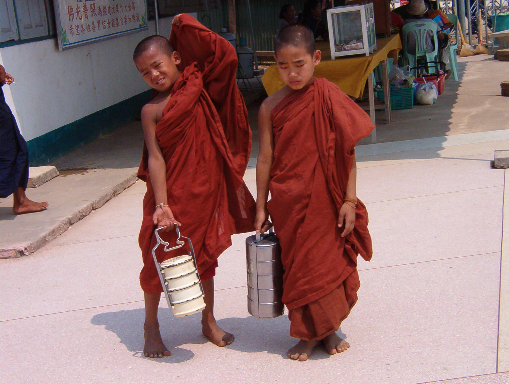 9 year old novice monks in Burma